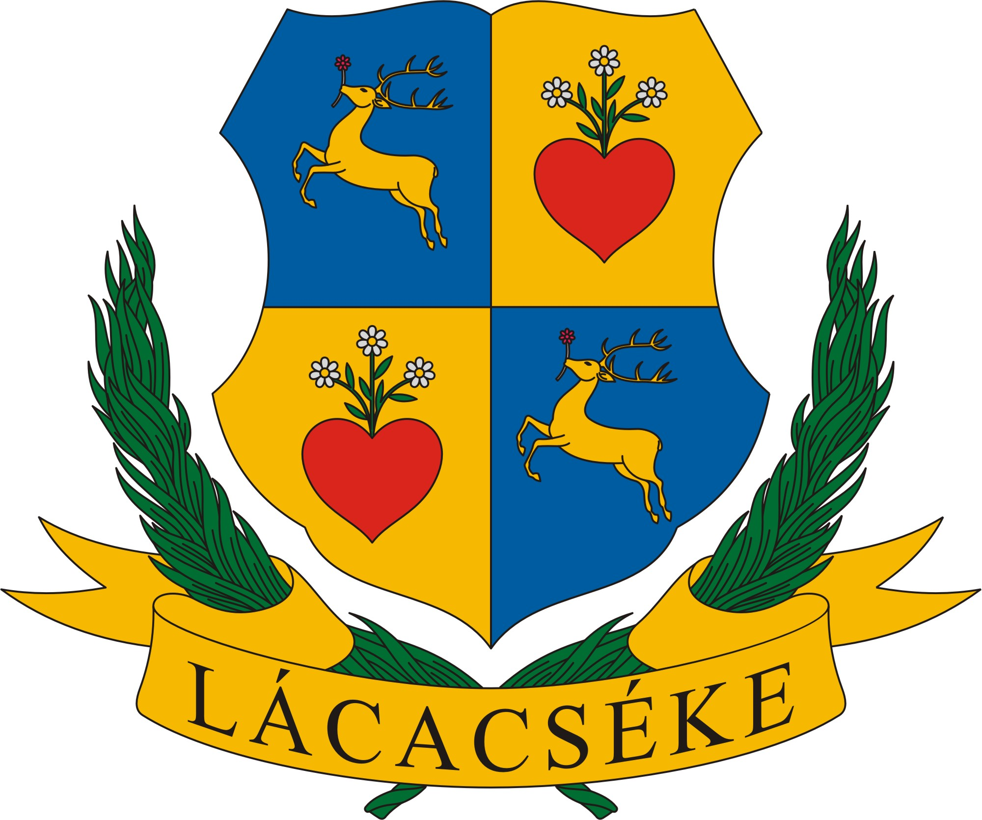 Coat of arms of Lácacséke, Hungary